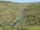 Mill Creek in the Ishi Wilderness — Lassen National Forest, Northern California.